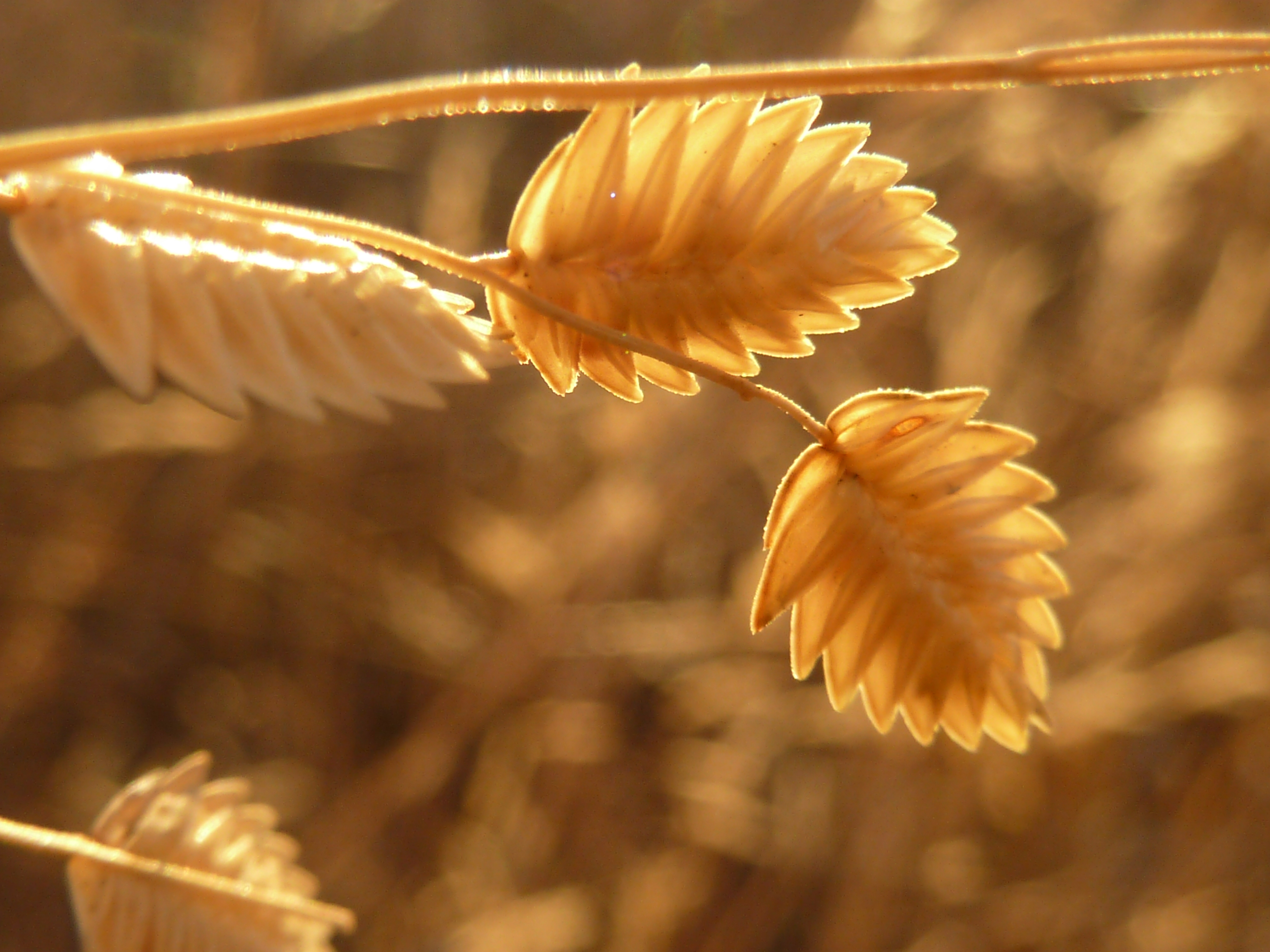 Spikelets of Eragrostis superba at Dingaanstat, eMakhosini Ophathe Heritage Park